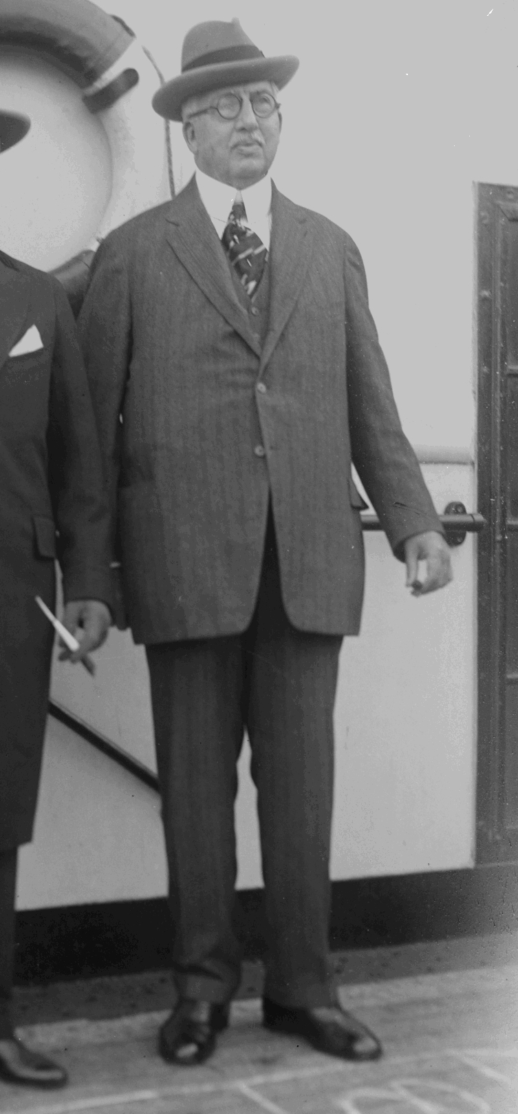 Robert A.C. Smith in 1900